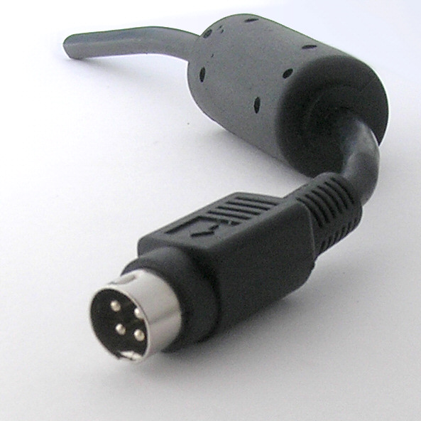 Male, 4 pin, Mini-DIN power connector (plug) from a laptop computer power supply cable.